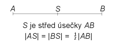 Mid of the segment